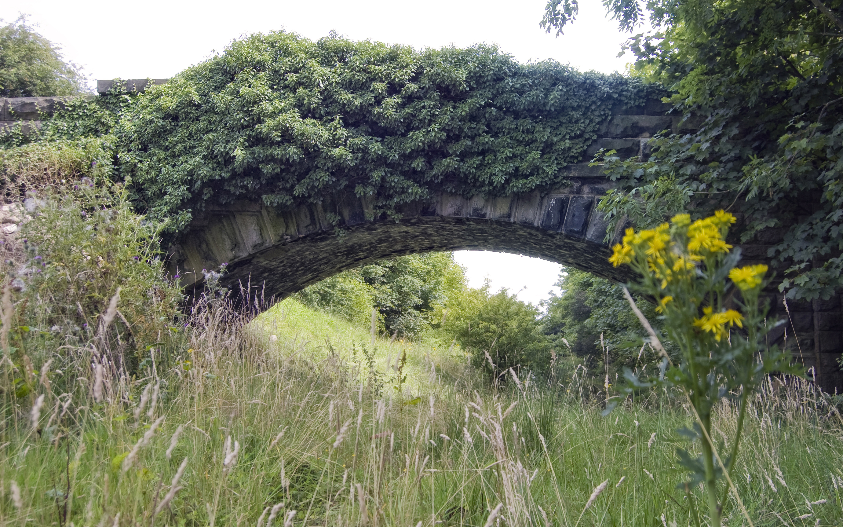 This overgrown stone bridge once spanned a twin-track section of the former railway branch line connecting Otley and Pool in Wharfedale to Arthington, Burley and Menston. The route of the trackbed makes for a great walk at this time of year; full of greenery and wildlife amid the crumbling railway remains.